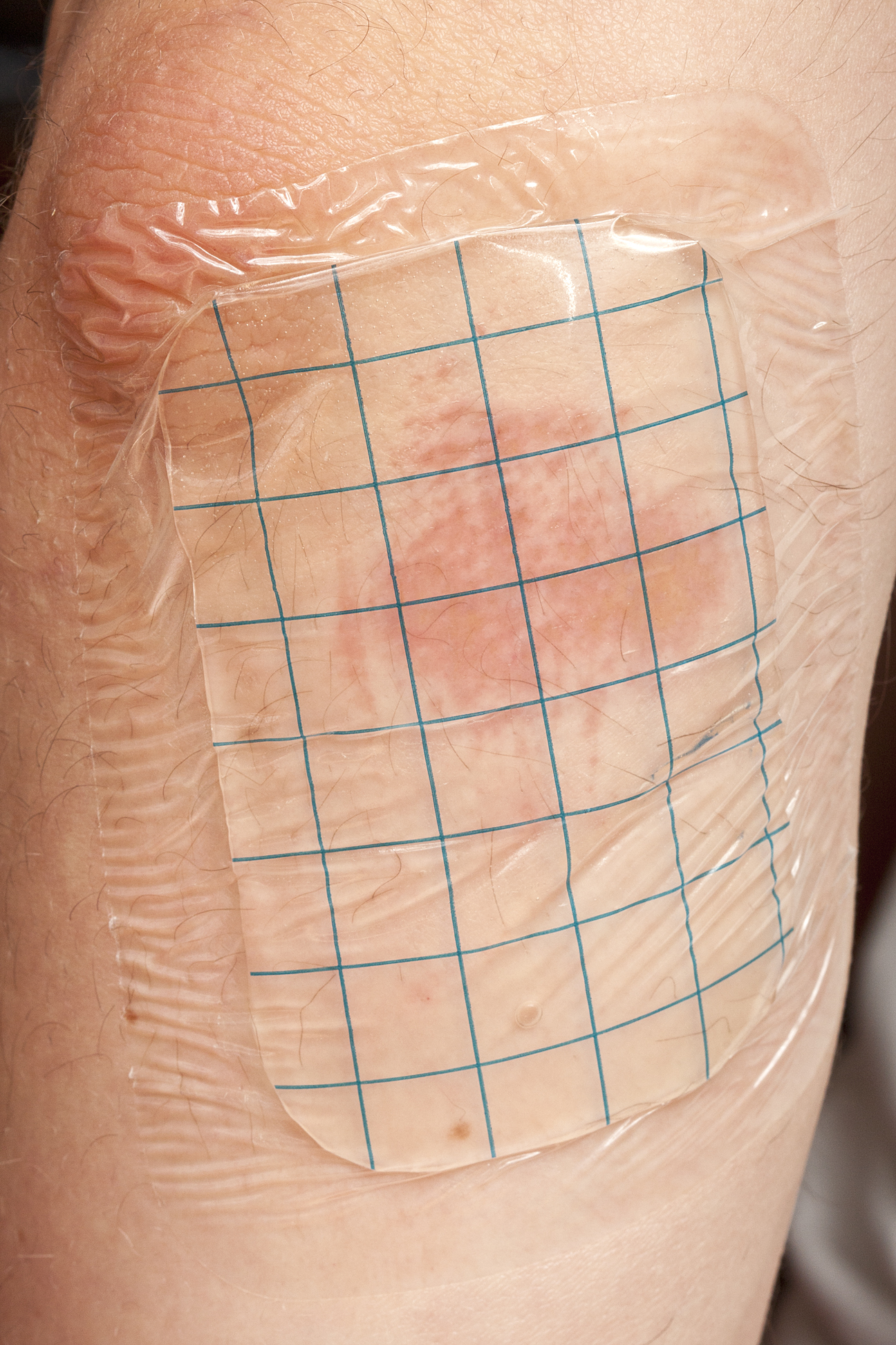 Opatrunek hydrożelowy Hydrosorb Comfort firmy Hartmann założony na otarciu naskórka w okolicy stawu łokciowego